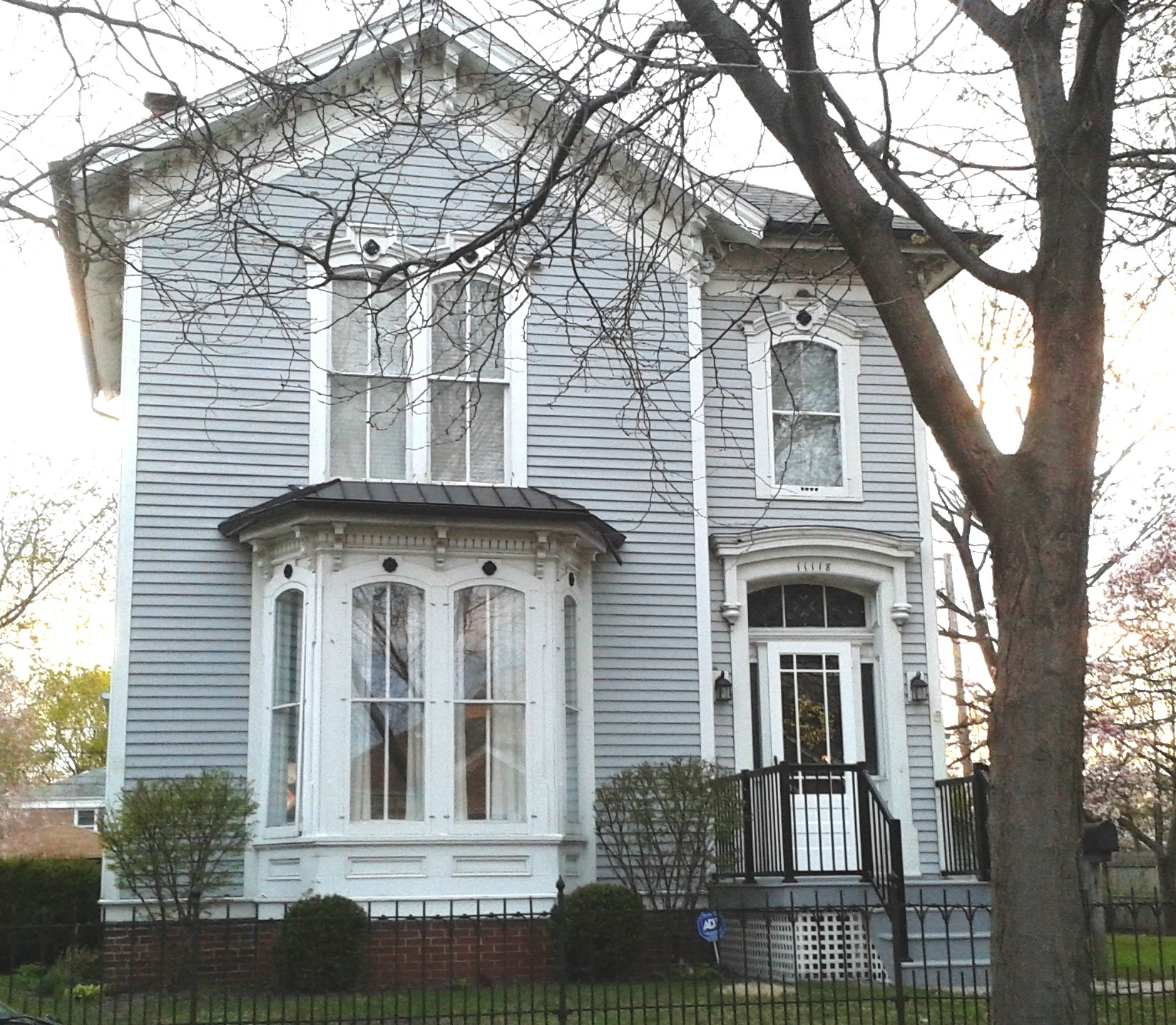 Image of the Charles D. Iglehart house at 11118 S. Artesian Ave., Chicago. Designated a City of Chicago Landmark July 13, 1994